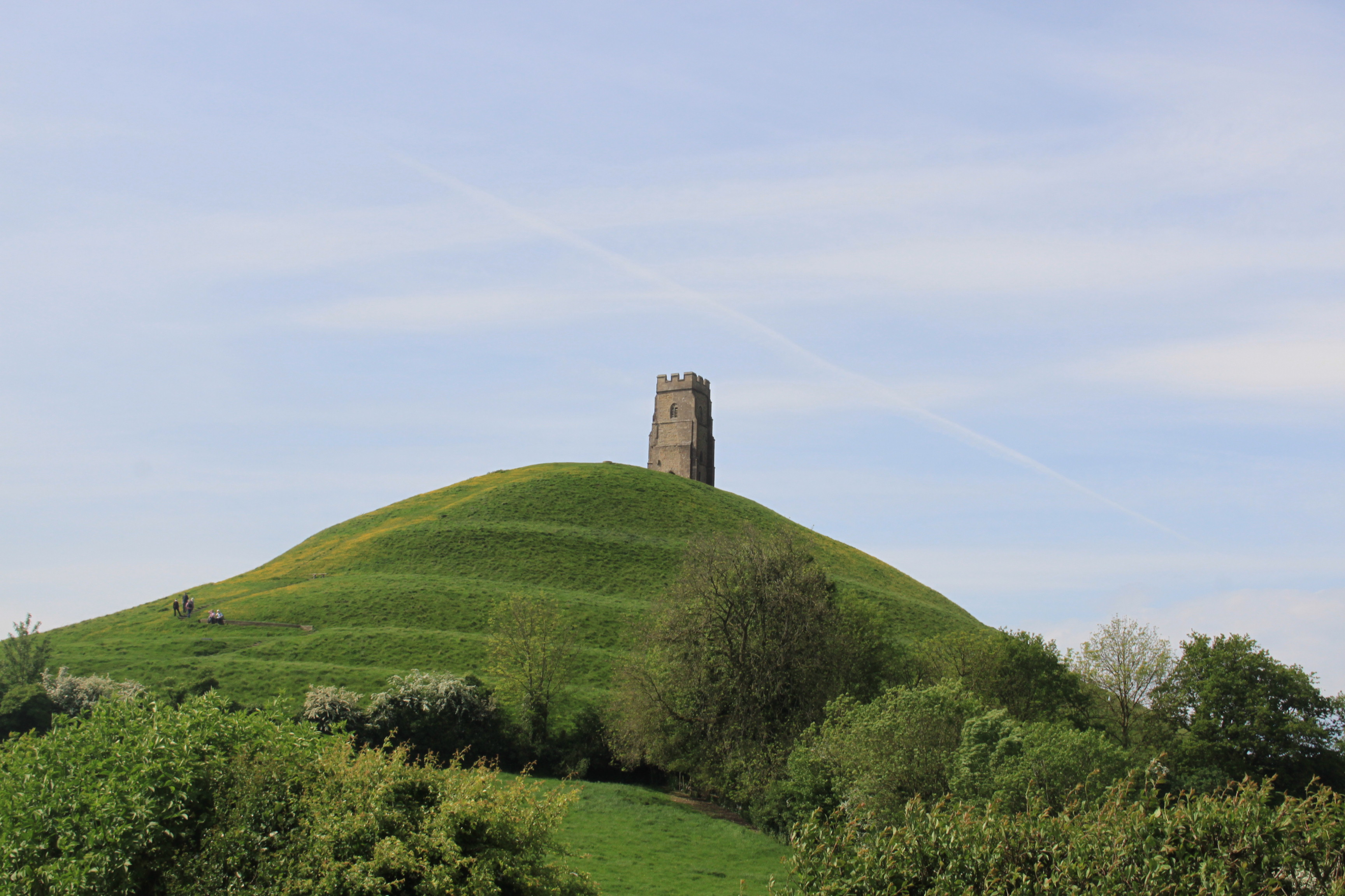 Glastonbury Tor from north east showing terraces